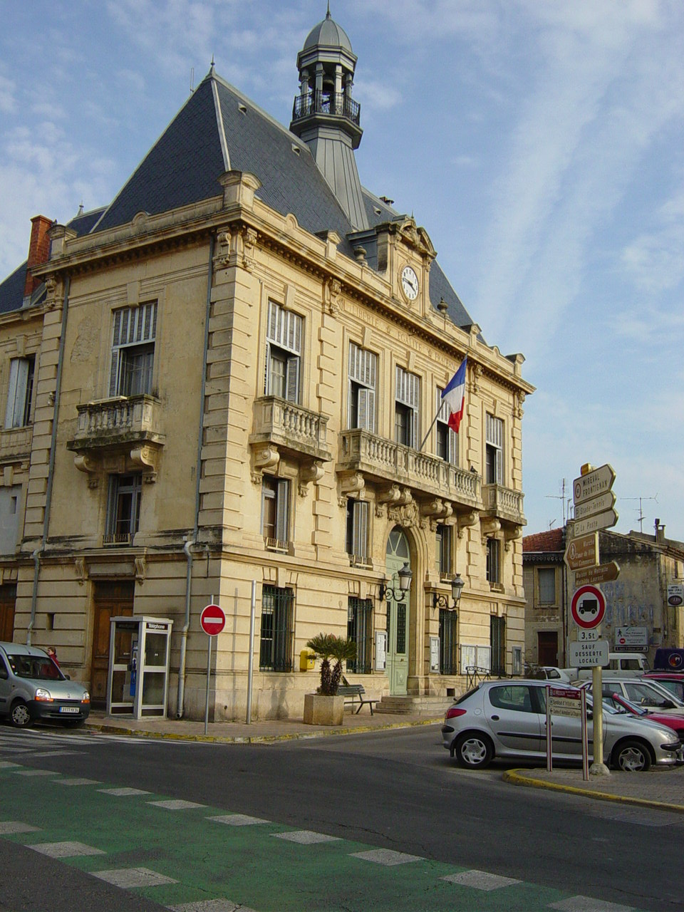 City hall of Villeneuve-lès-Maguelone (France). Photo taken by me.